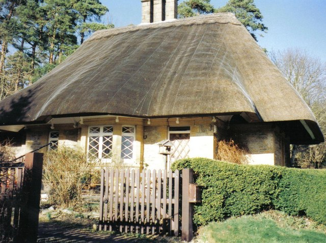 Goathill: oversize thatch The overhang on the roof of this lodge at Goathill is surprisingly big.